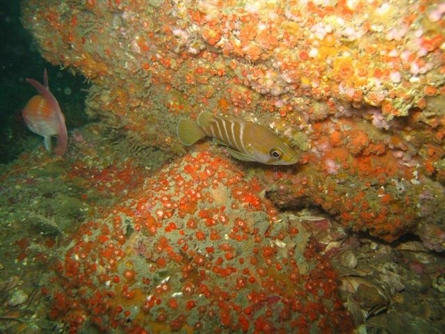 Acanthistius brasilianus at Ilha Redonda, Monumento Natural das Ilhas Cagarras, Brazil.